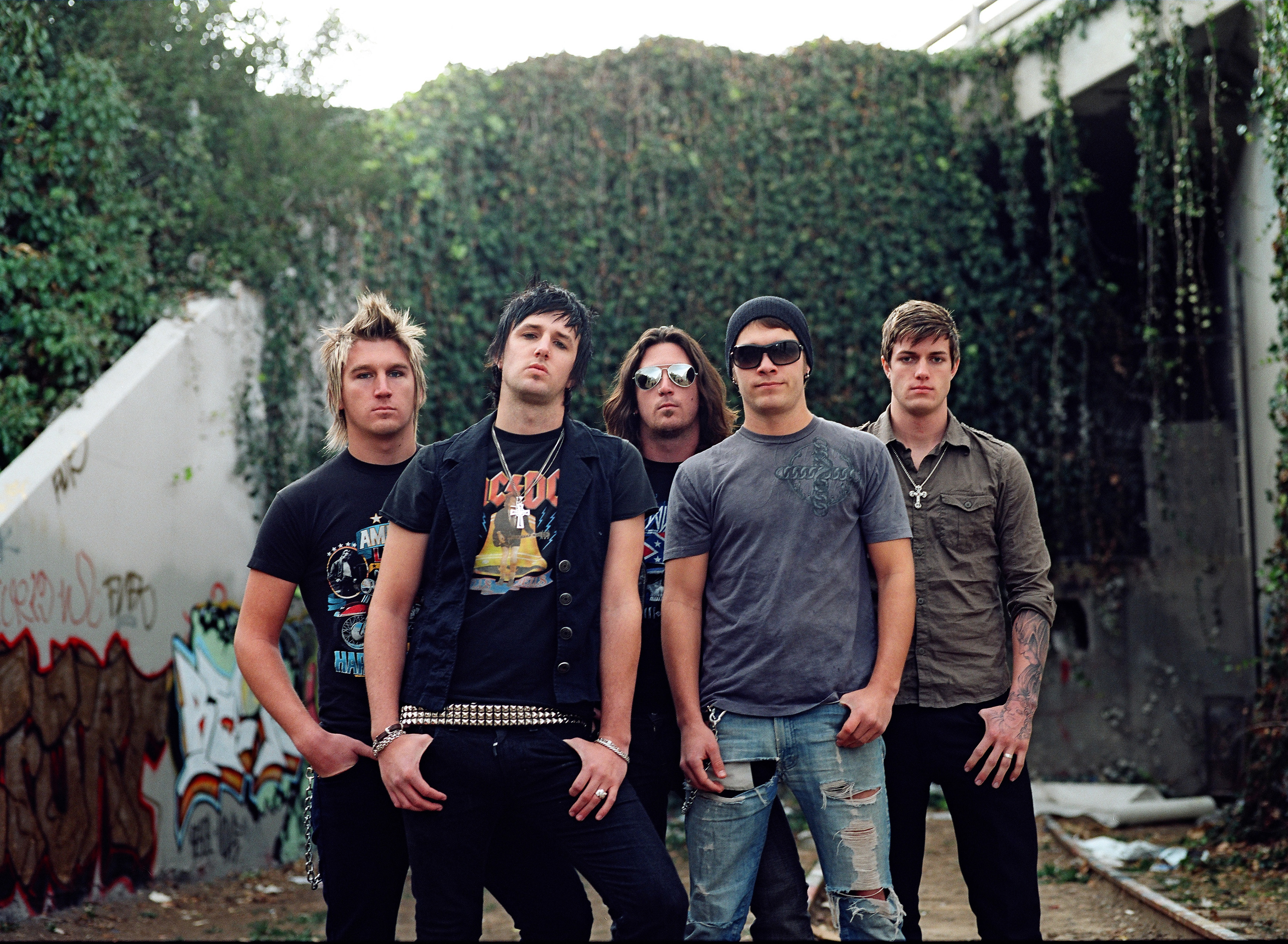 The Confession